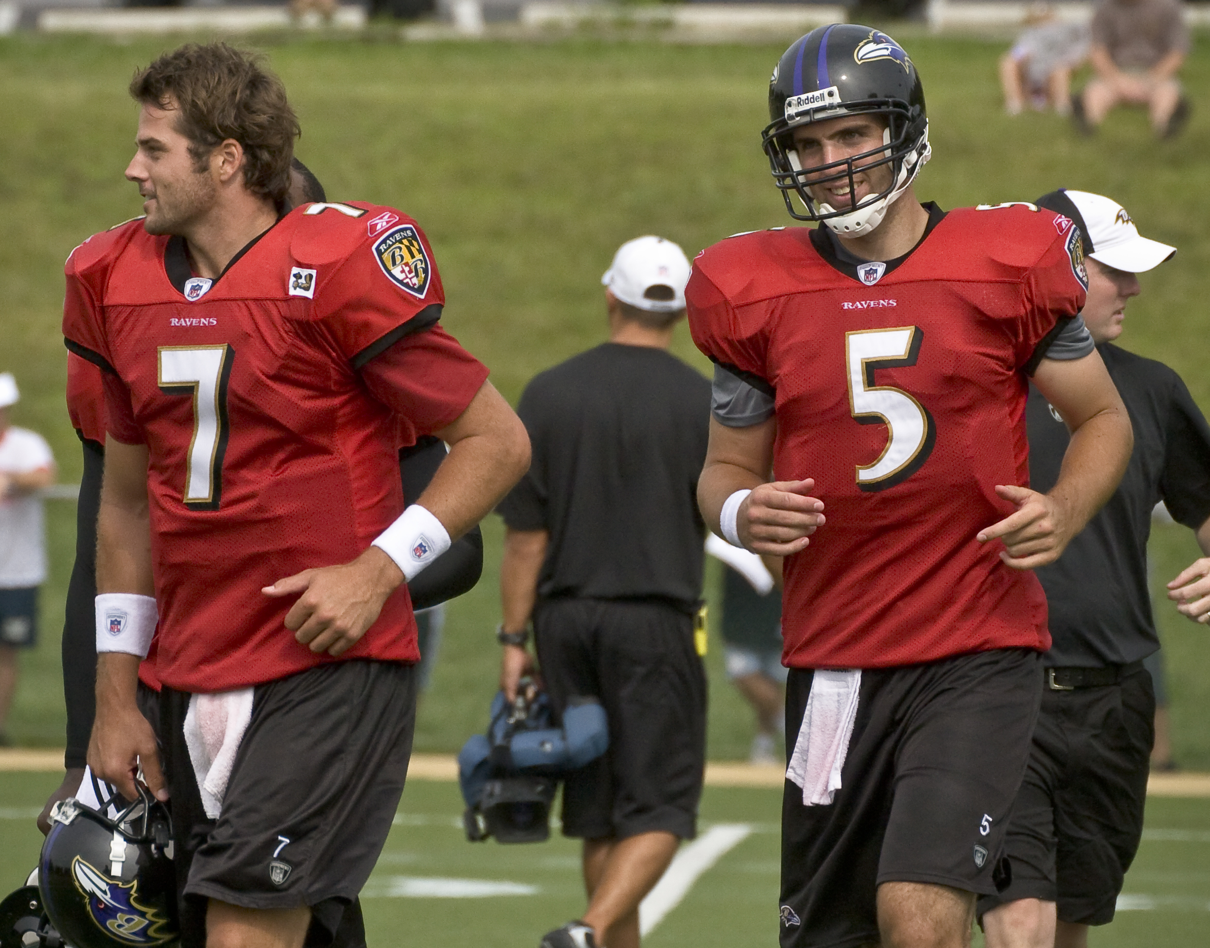 Ravens Training Camp July 23rd